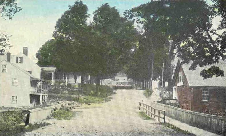 View of the bridge, Gilmanton Iron Works, New Hampshire